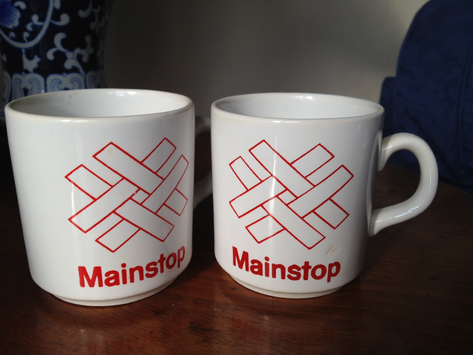 Promotional mugs issued by the Mainstop supermarket chain during the 1970s in England.